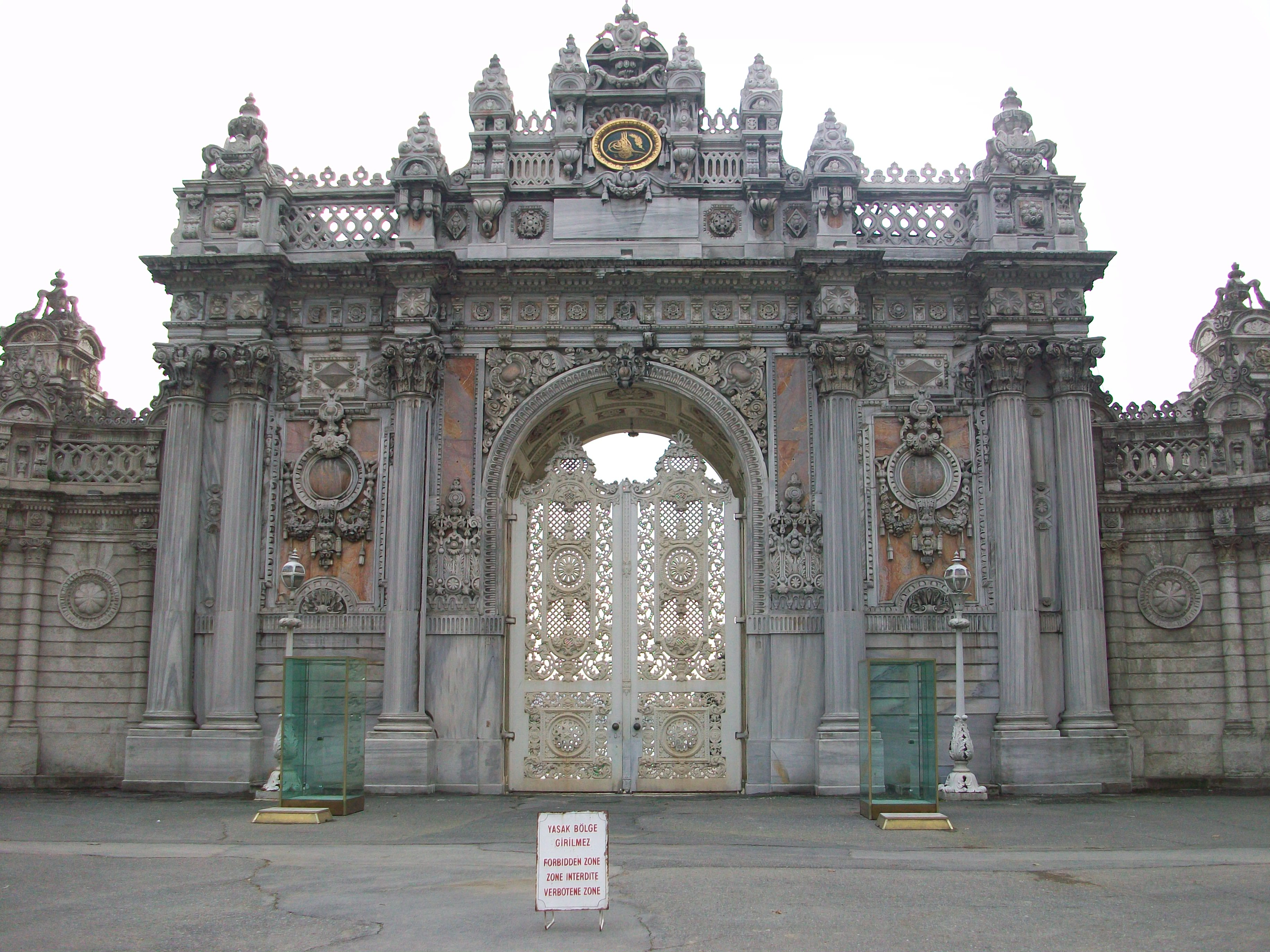 Dolmabahce Palace gate.